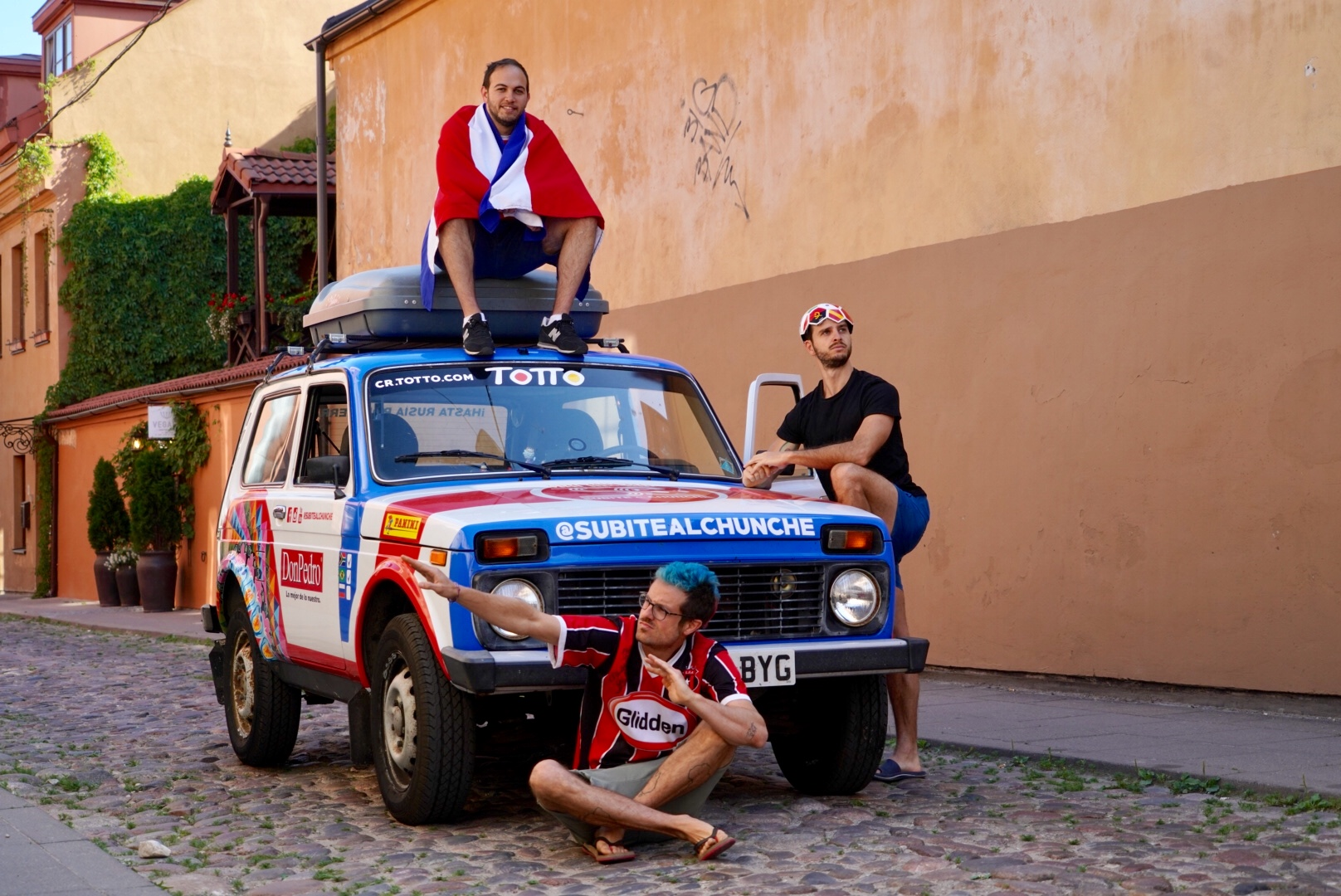 Integrantes del proyecto Subite al Chunche, a bordo y posando a la par del Lada Niva 2002 utilizado para la edición 2018 de dicho proyecto.